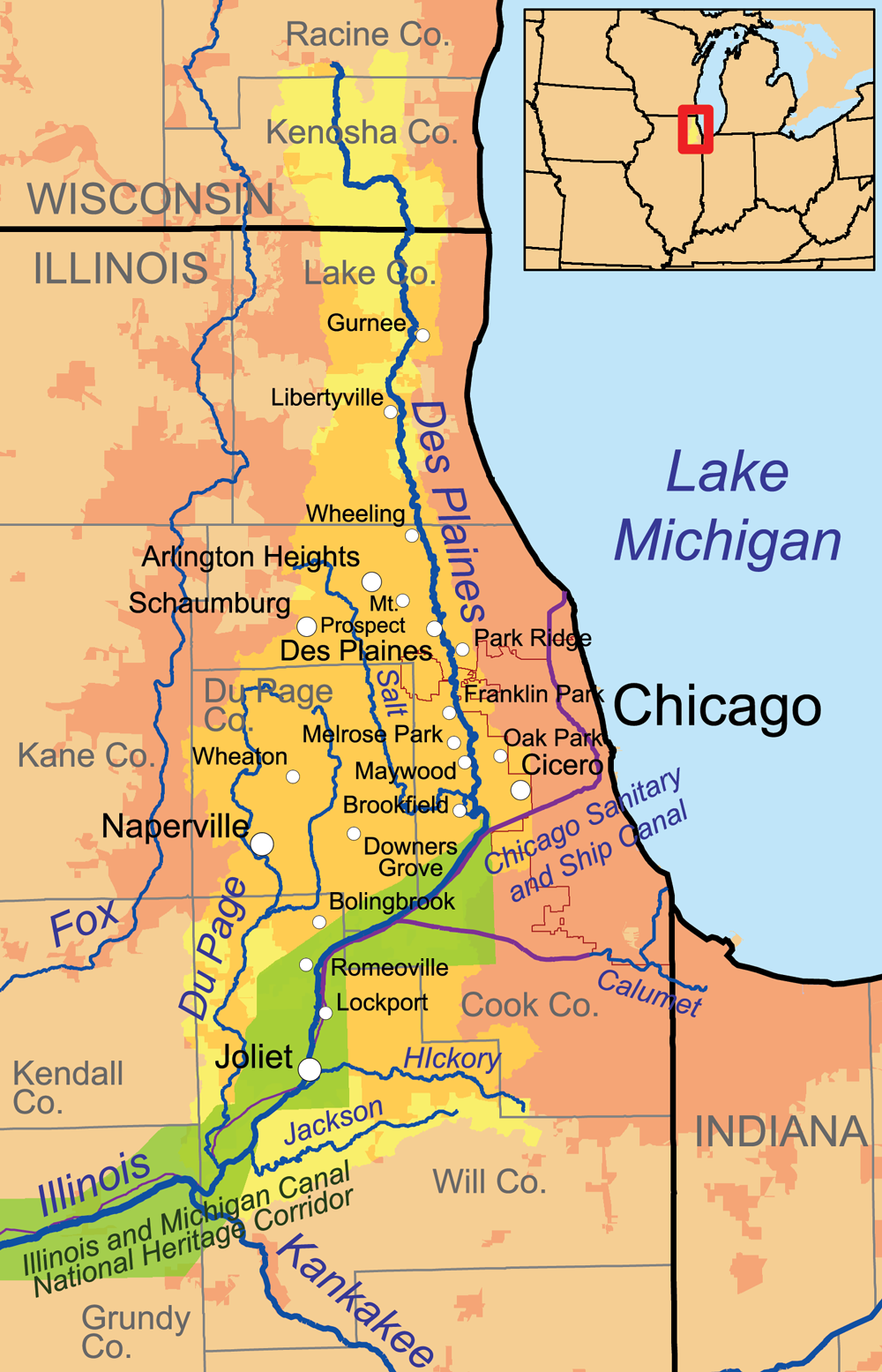 Map of the Des Plaines River drainage basin. The drainage basin is in yellow. Urbanized areas are in red.